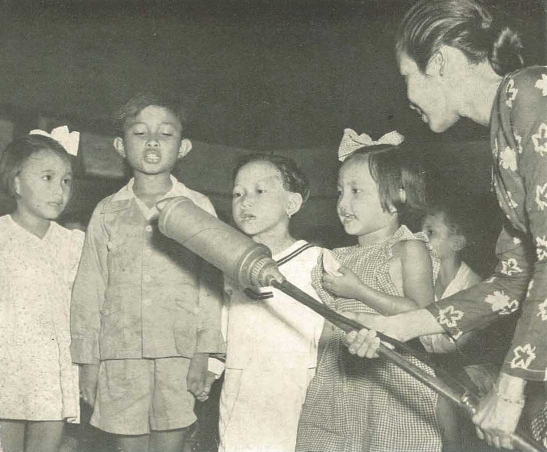 Jakarta youths on radio